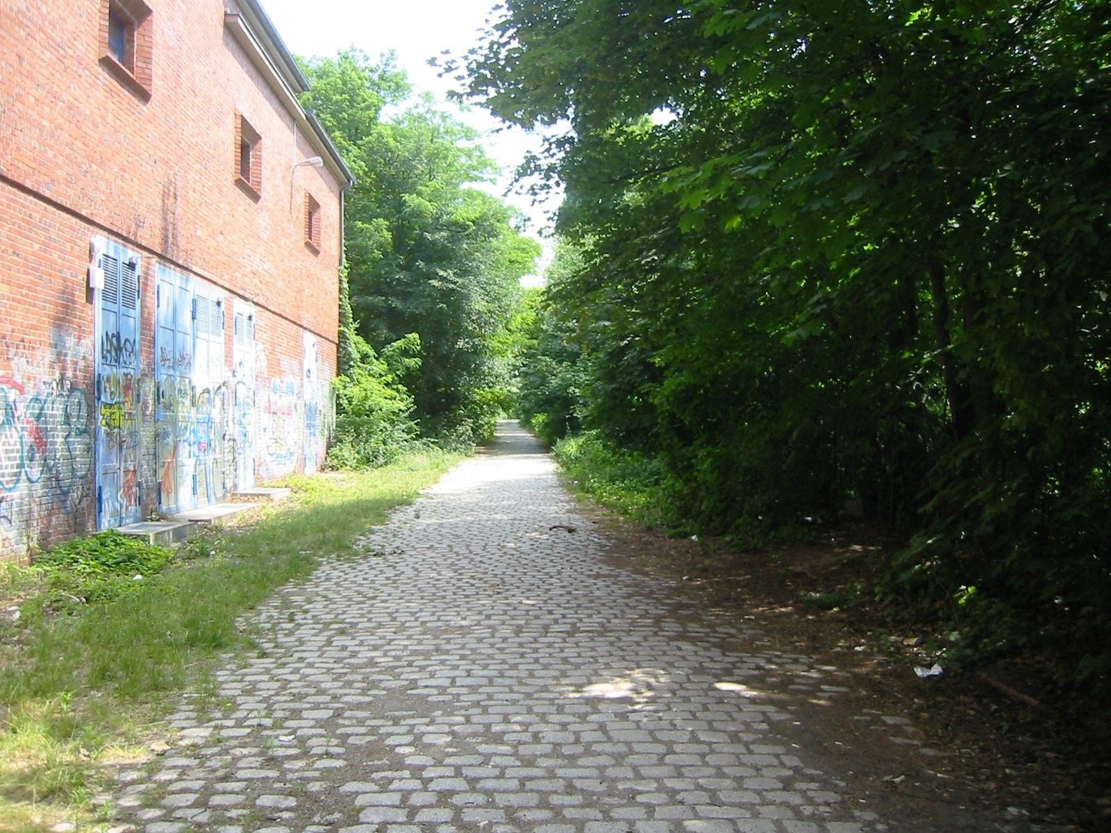 Berlin-Friedenau Straße am Güterbahnhof Wilmersdorf